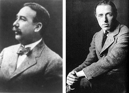 Photography of Edwin S. Porter